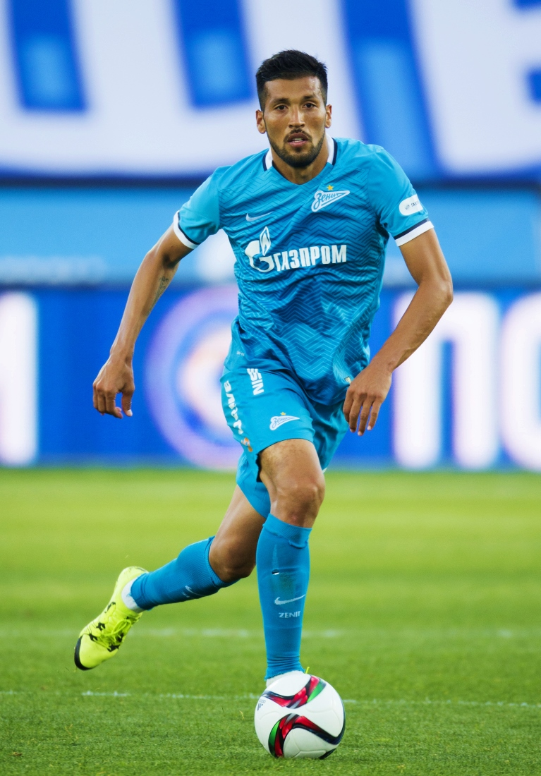 29.08.2015. Россия, Санкт-Петербург, стадион «Петровский». Чемпионат России 2015/16, 7 тур, «Зенит» — «Крылья Советов». На снимке в синей форме